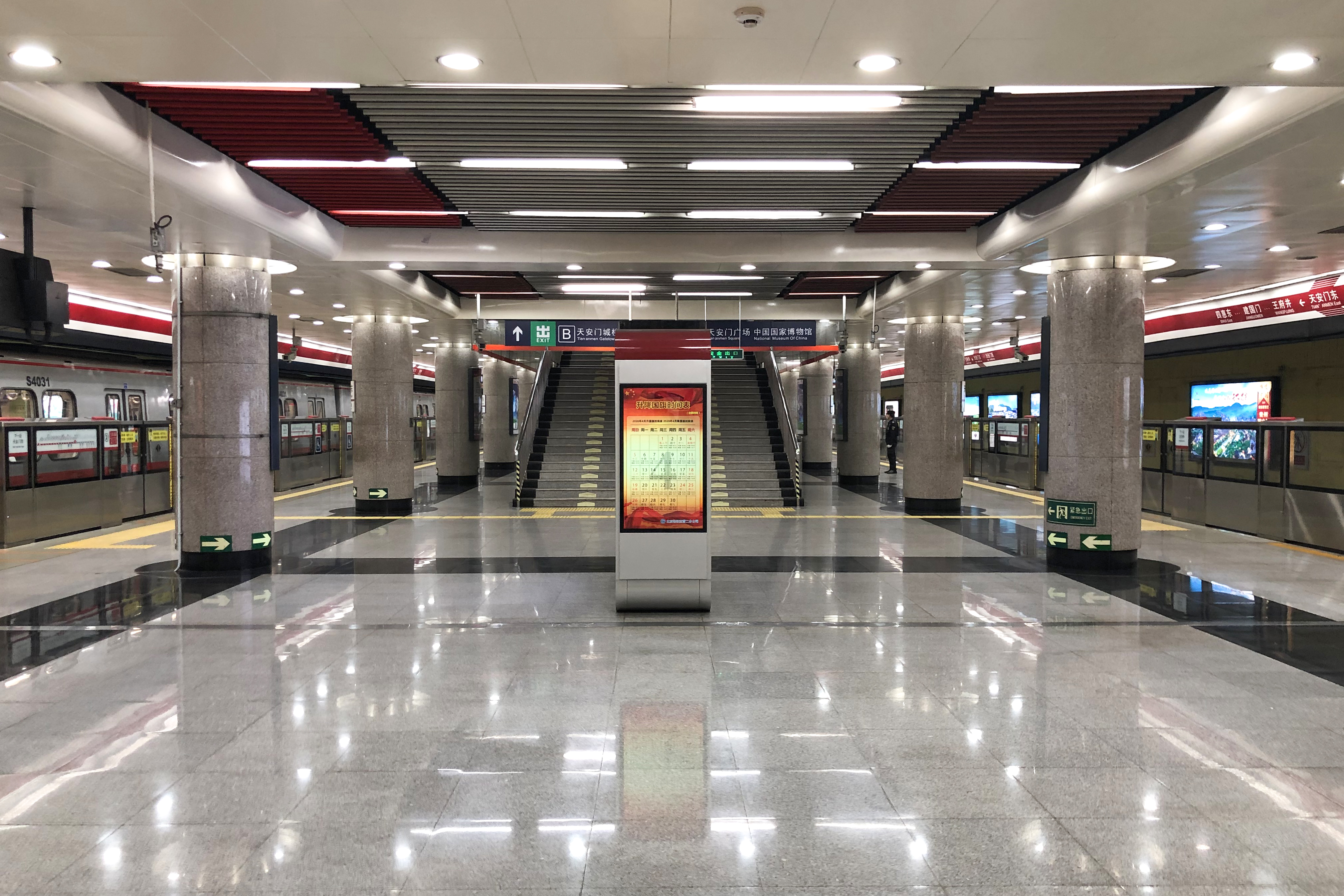 Now the platform has got a new feature: flag rising timetable!